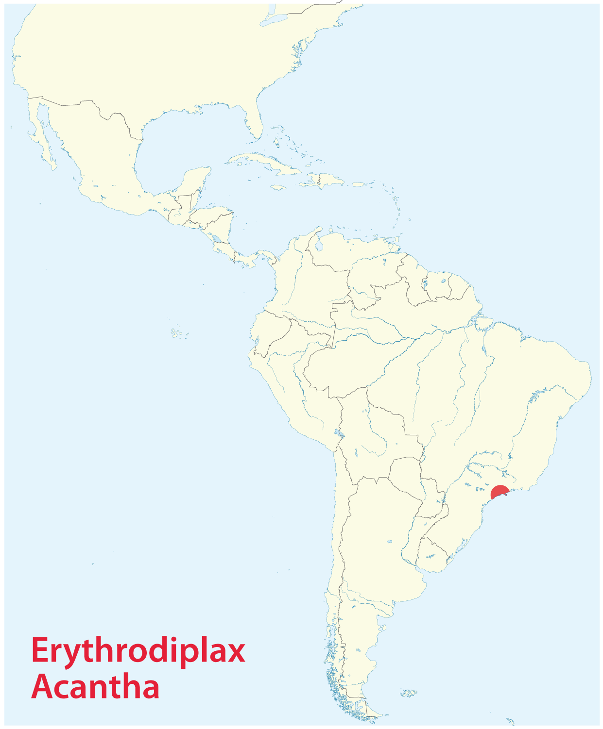 Distribution map of Erythrodiplax Acantha